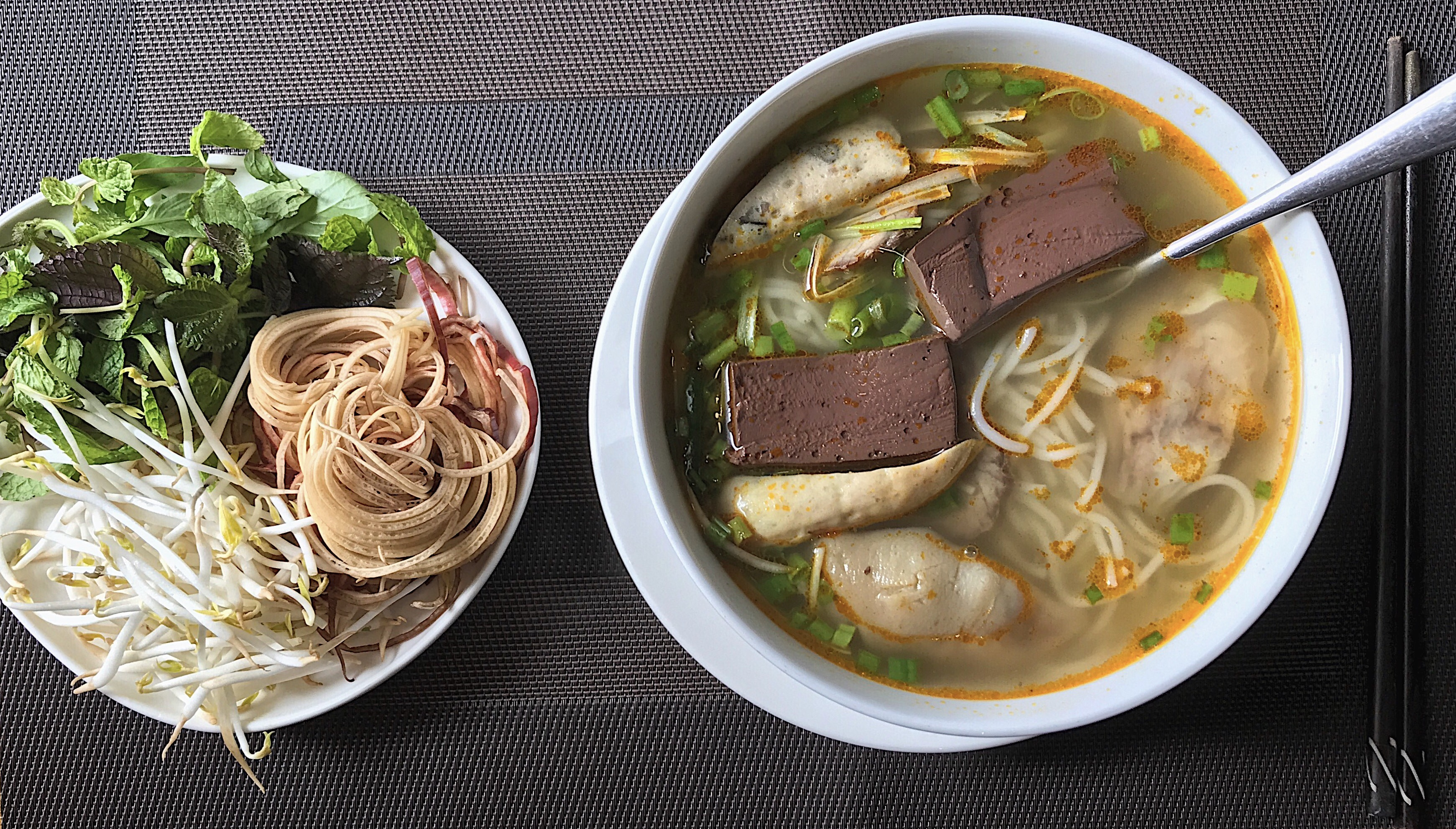 Bún bò Huế tại Royal city Hà Nội